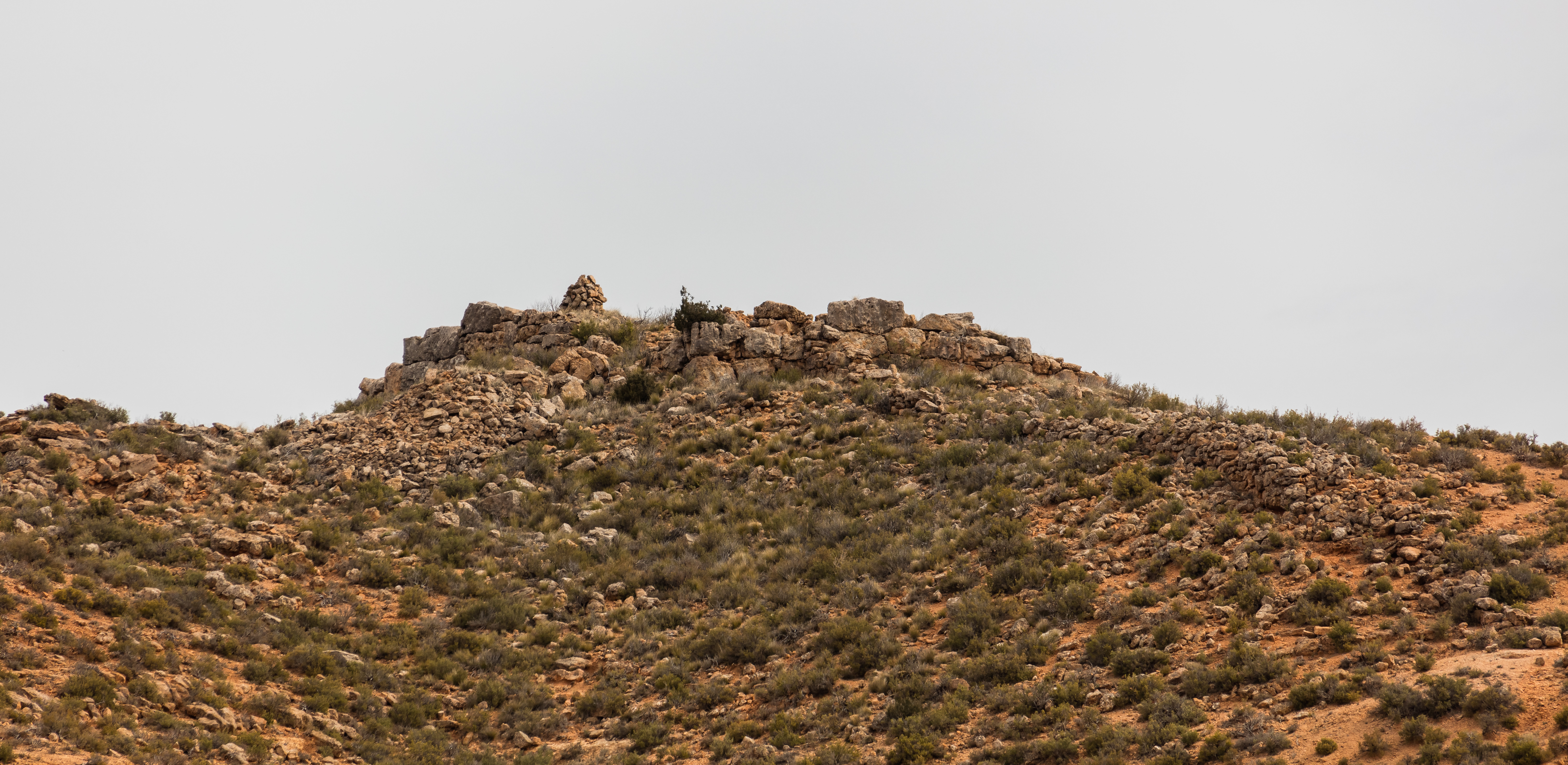 Cyclopean settlement, Santa María de Huerta, Soria, Spain